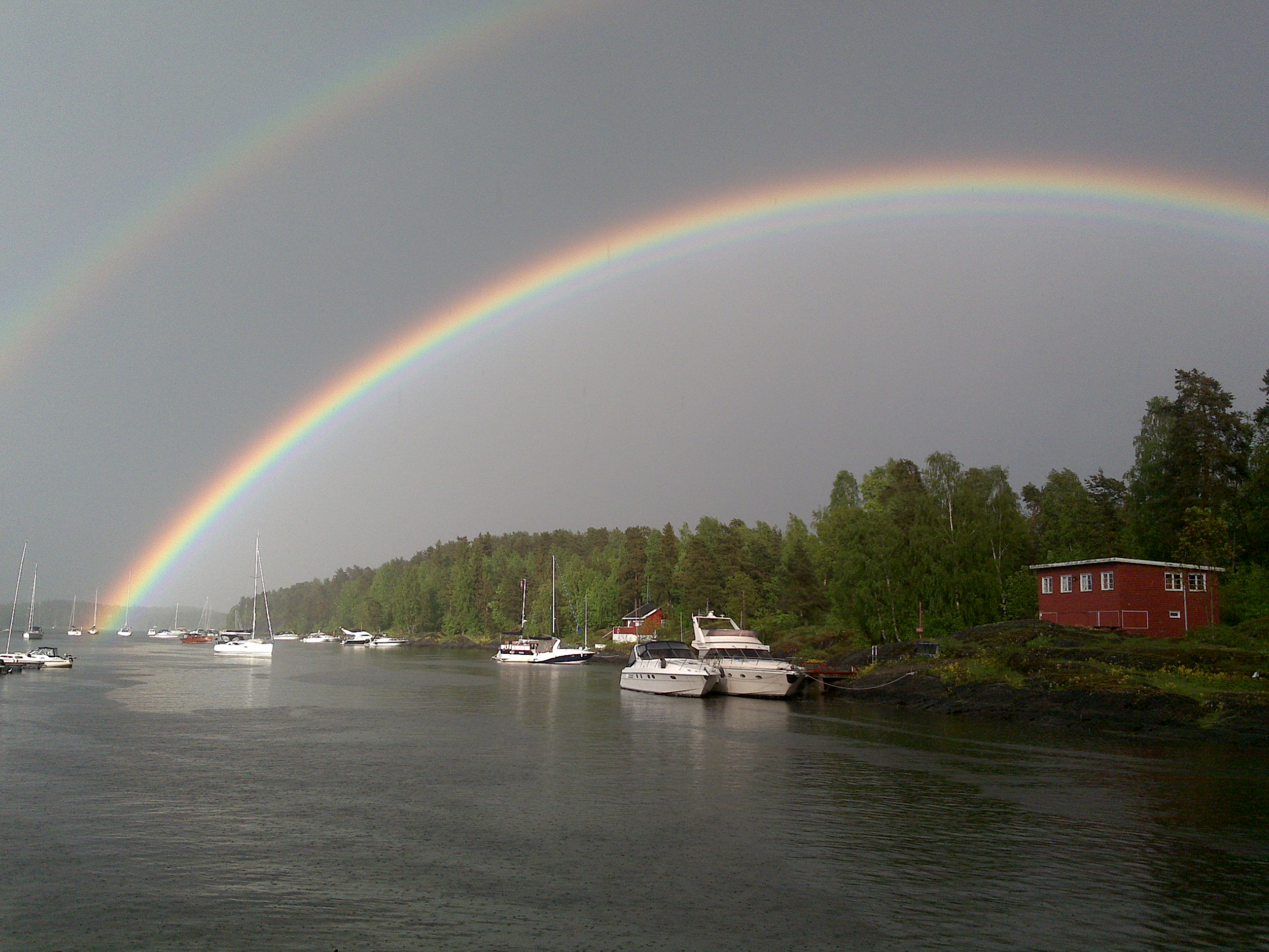 Middagsbukta, Asker (Norway).